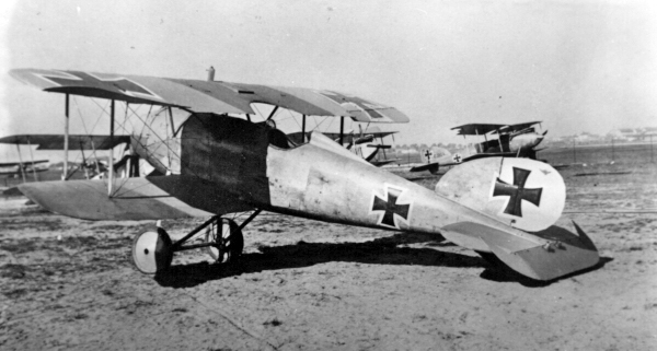 Catalog #: 00074764 Manufacturer: Albatros Designation: D-IV